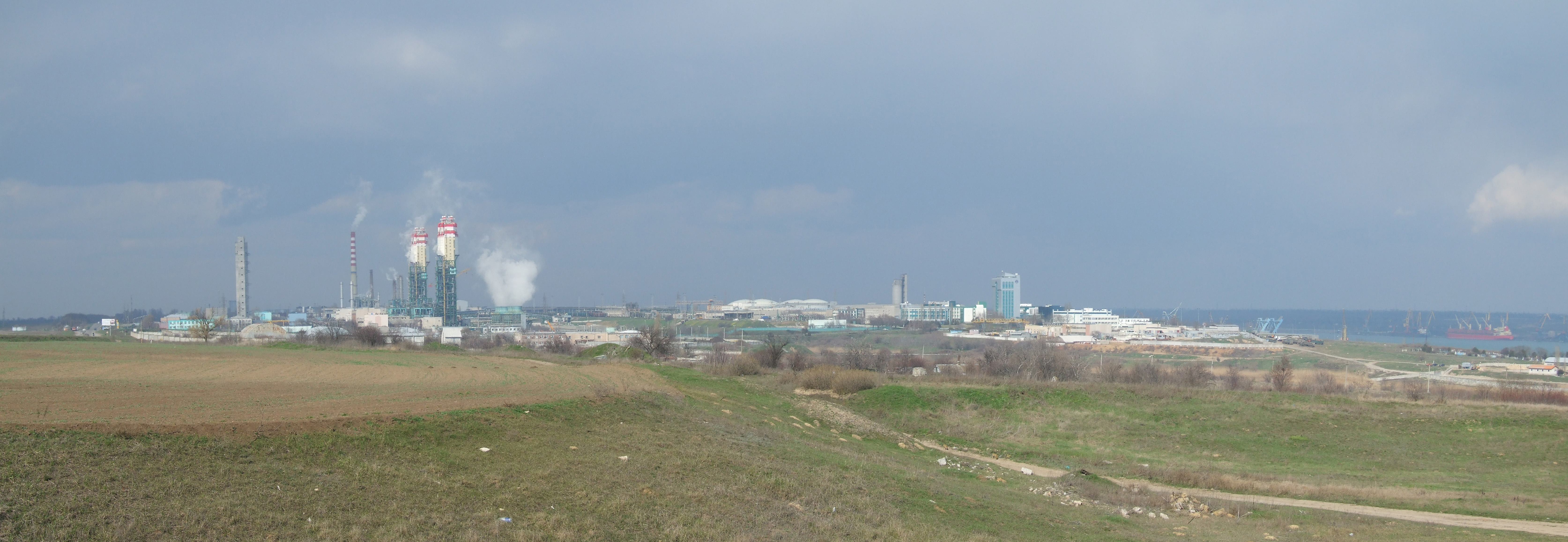 The panorama of Odessa Port Plant, Kominternivskyi Raion, Odessa Oblast, Ukraine